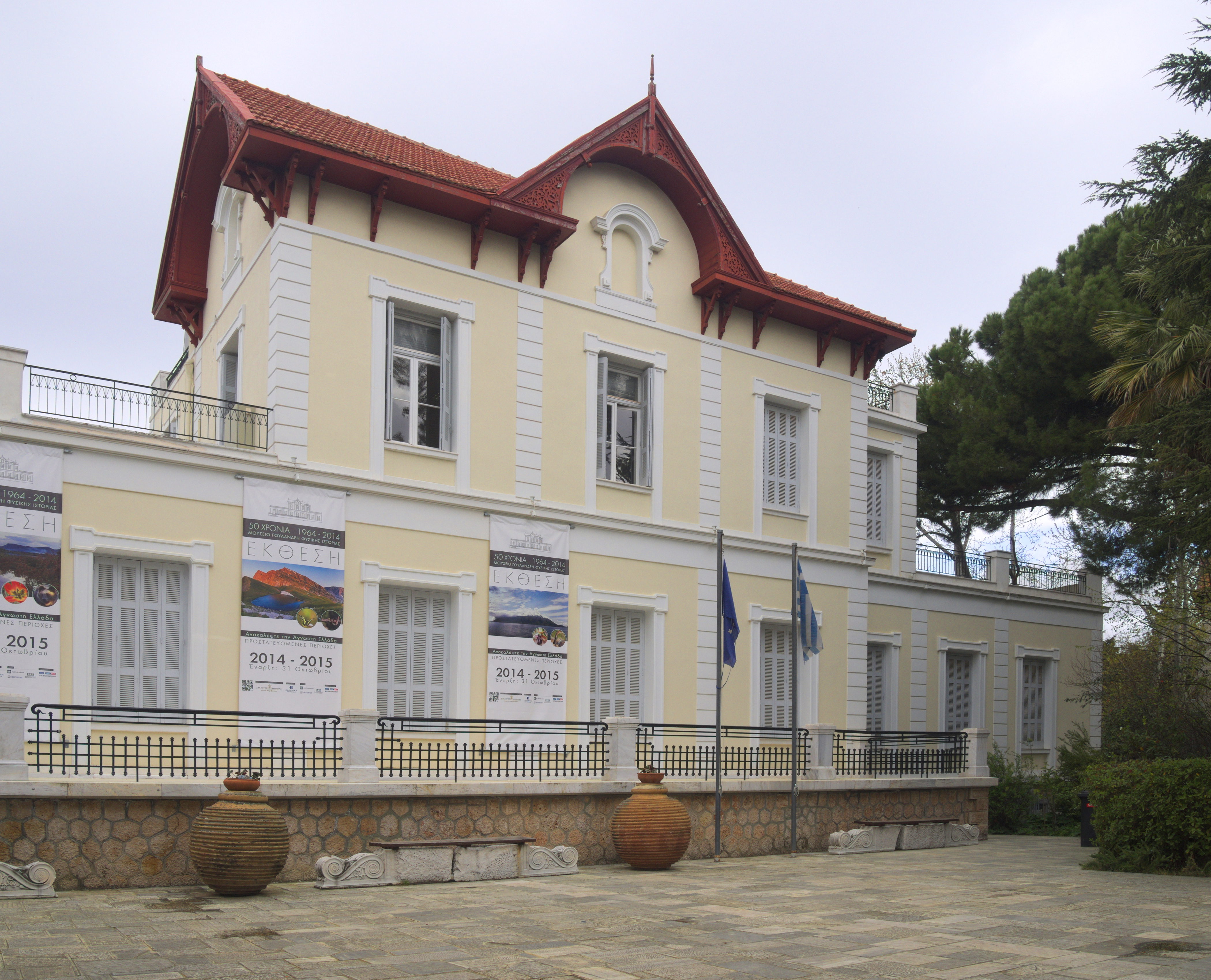 Goulandris natural history museum old building. The neoclassical building which houses the museum was built in 1875.